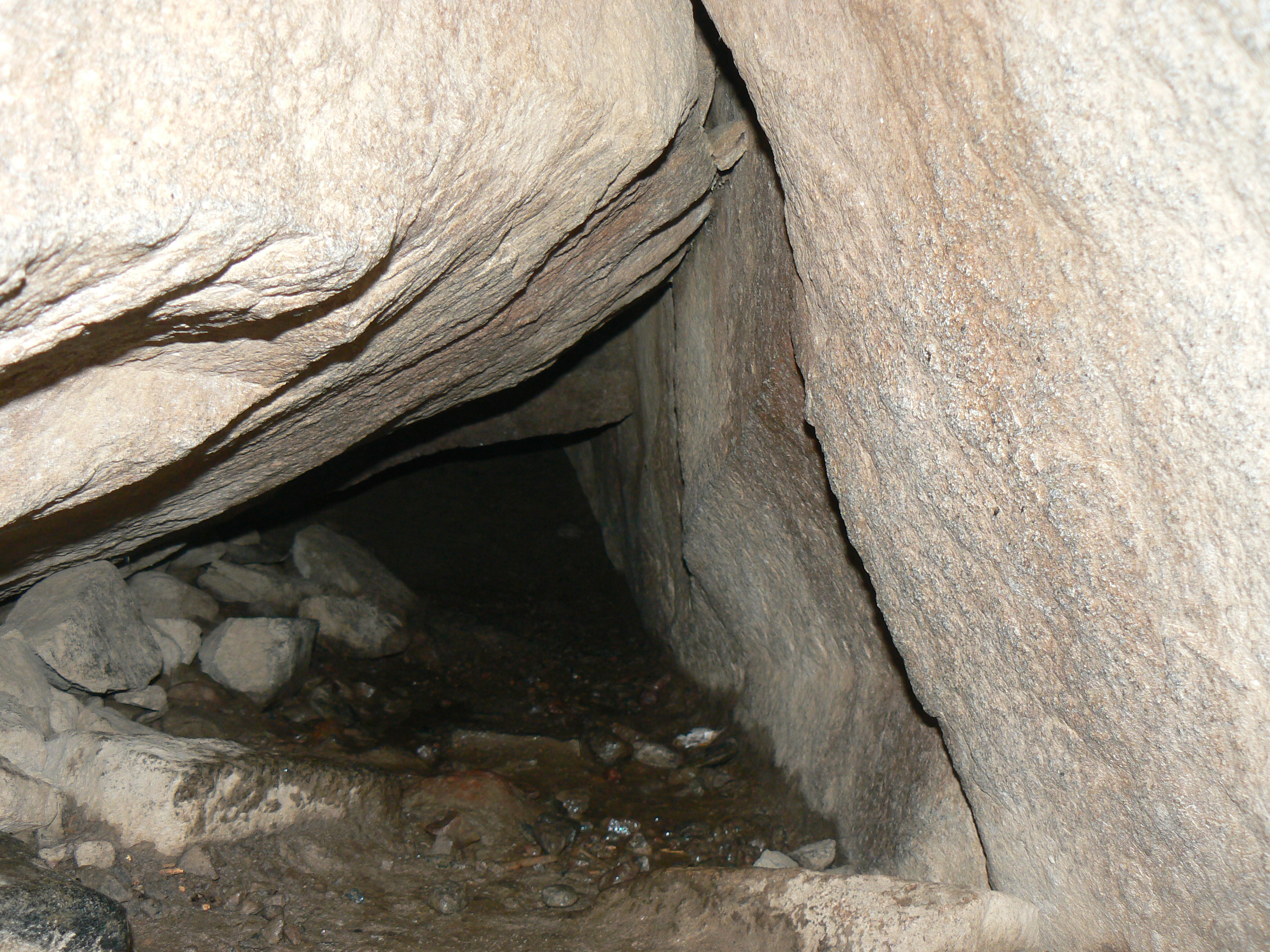 Photo from inside the cave at Höversby in Östergötland county, Sweden. The picture shows the entrance of the narrow passage between its two main chambers.